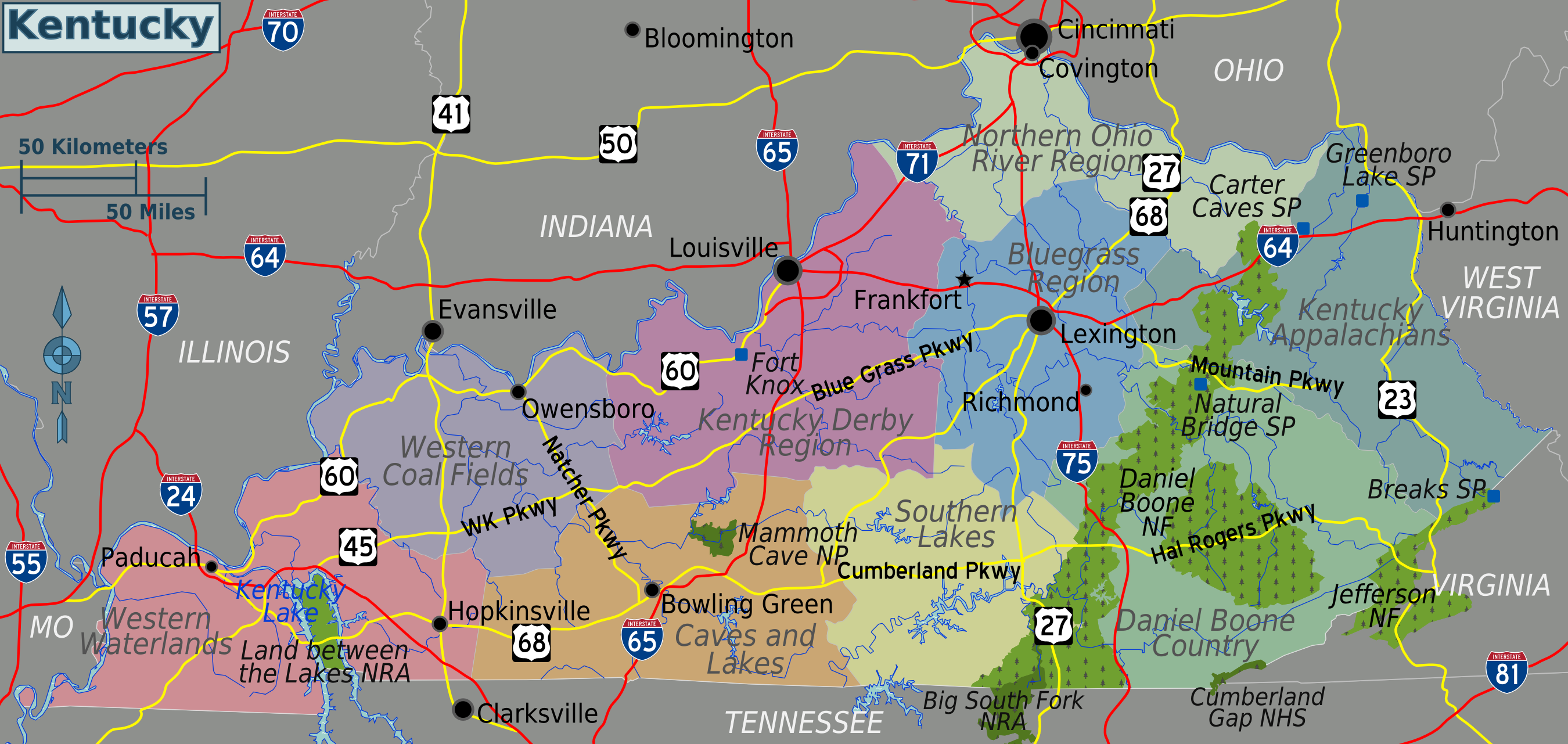 Kentucky regions map for use on Wikivoyage, English version